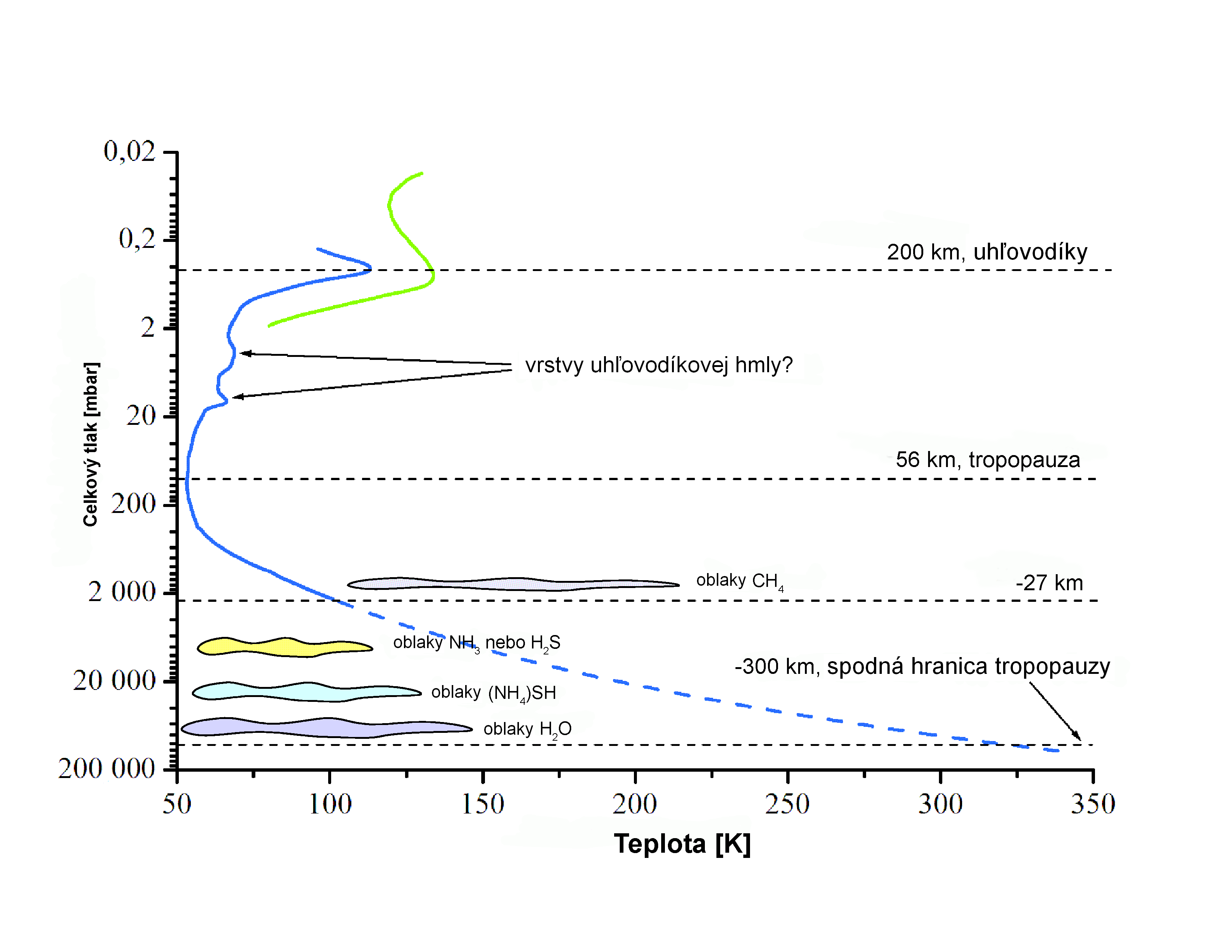 This graph shows temperature profile in the troposphere and in the lower stratosphere of Uranus.